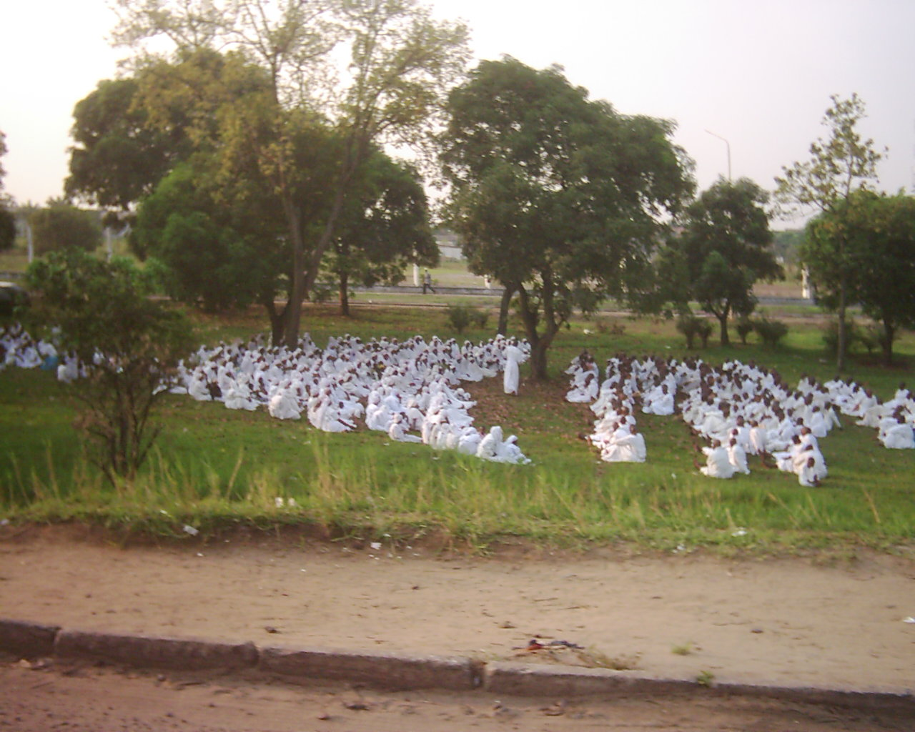 Open air christian ceremony in Lemba, Kinshasa, 2003. In the background, the Foire internationale de Kinshasa field.